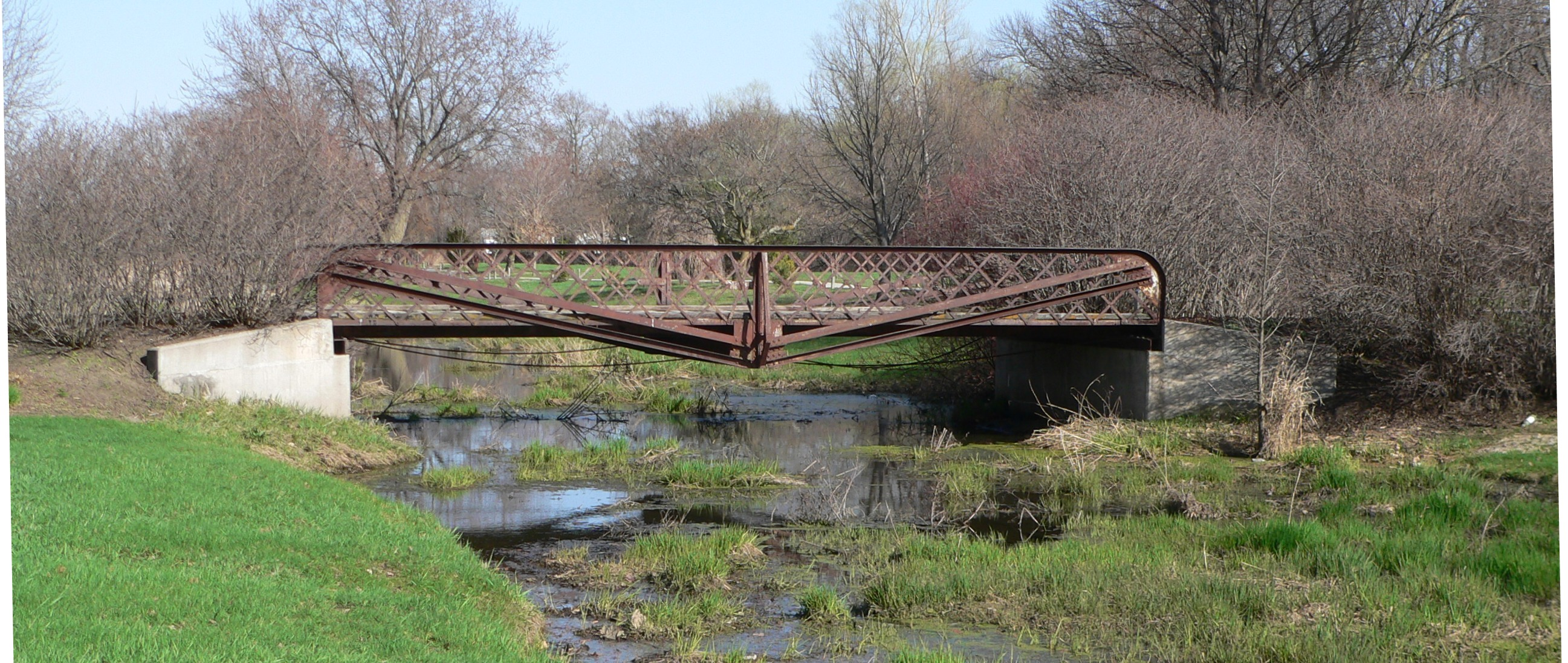 Historic Willow Creek Bridge in Pierce County, Nebraska; seen from the west (upstream). The lattice-truss bridge was constructed in 1913 to carry what is now 852 Rd across Willow Creek between 542 and 543 Aves, west-southwest of Pierce, Nebraska. In 1994, it was replaced by a concrete beam bridge; the old bridge was moved to Gilman Park in Pierce. It is listed in the National Register of Historic Places.